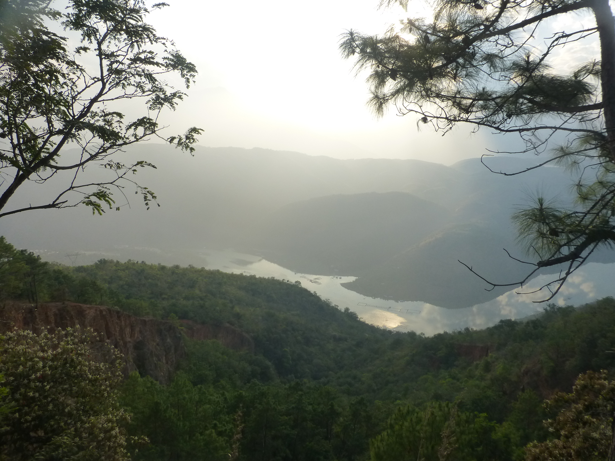 A view of the Nansha Reservoir on the Red River (Yuanjiang) from Yunnan Route 214, as it descends from Potou Township toward the valley of Red River.